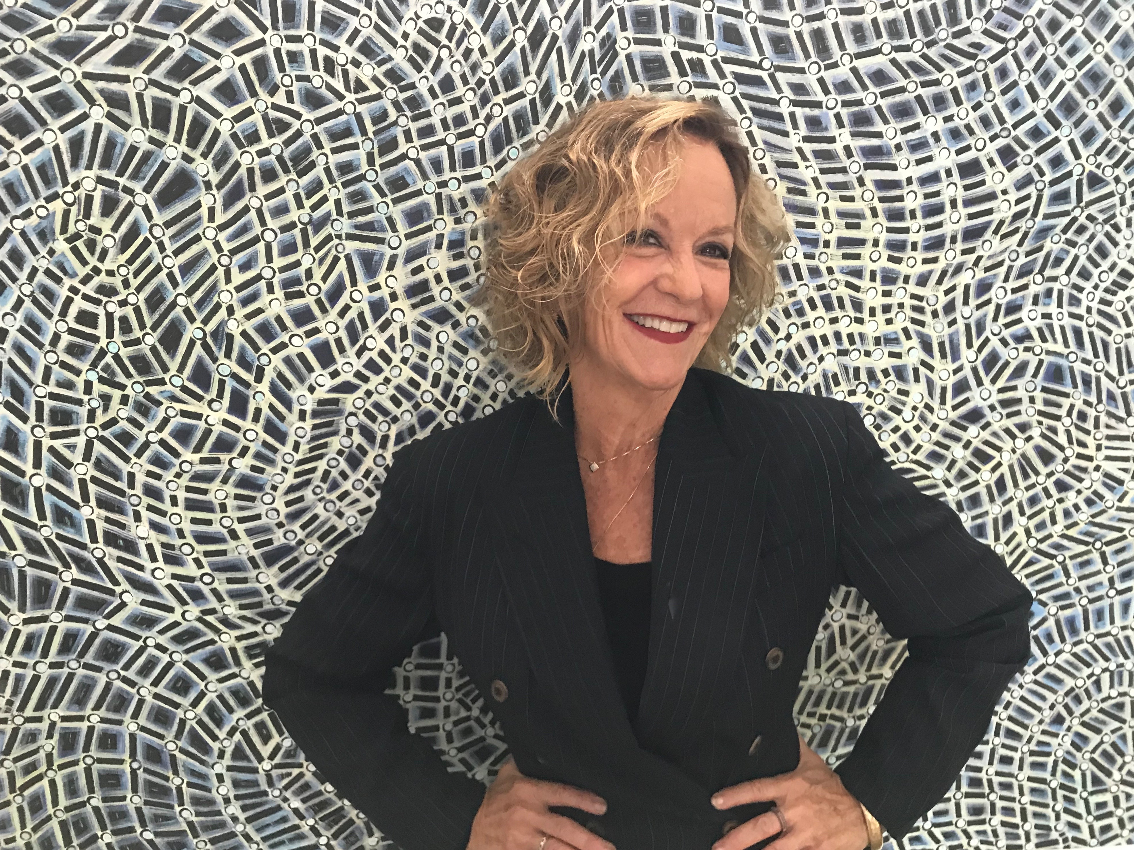 Photograph of artist Susan Sensemann, 2018. Self portrait taken with tripod and timer.